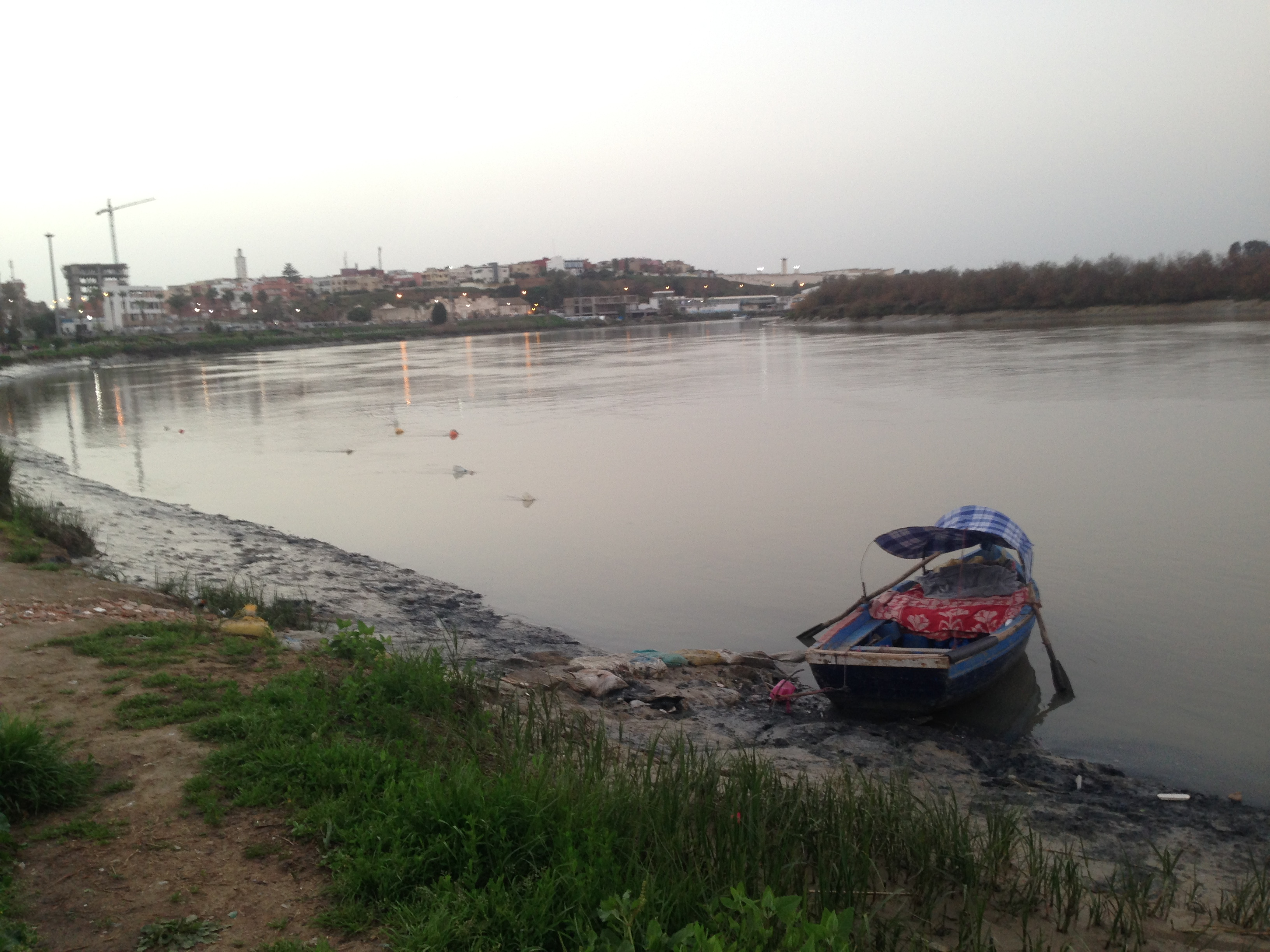 Sebou is a river in northern Morocco. At its source in the Middle Atlas mountains it is known as the Guigou River, Sebou is navigable for only 16 km as far as the city of Kenitra. This is an image with the theme "Play" from: Morocco